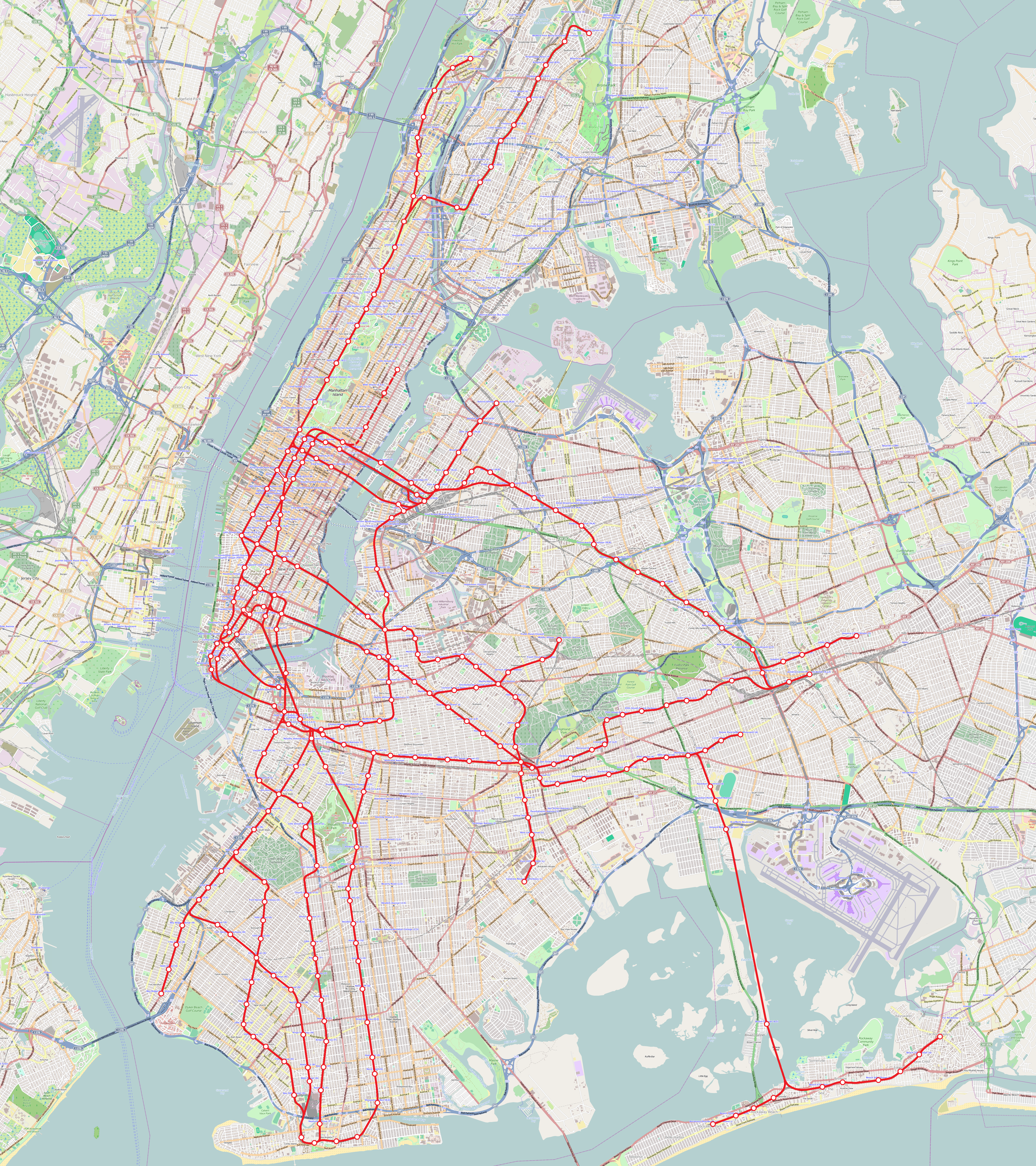 Map of New York City Subway's B Division